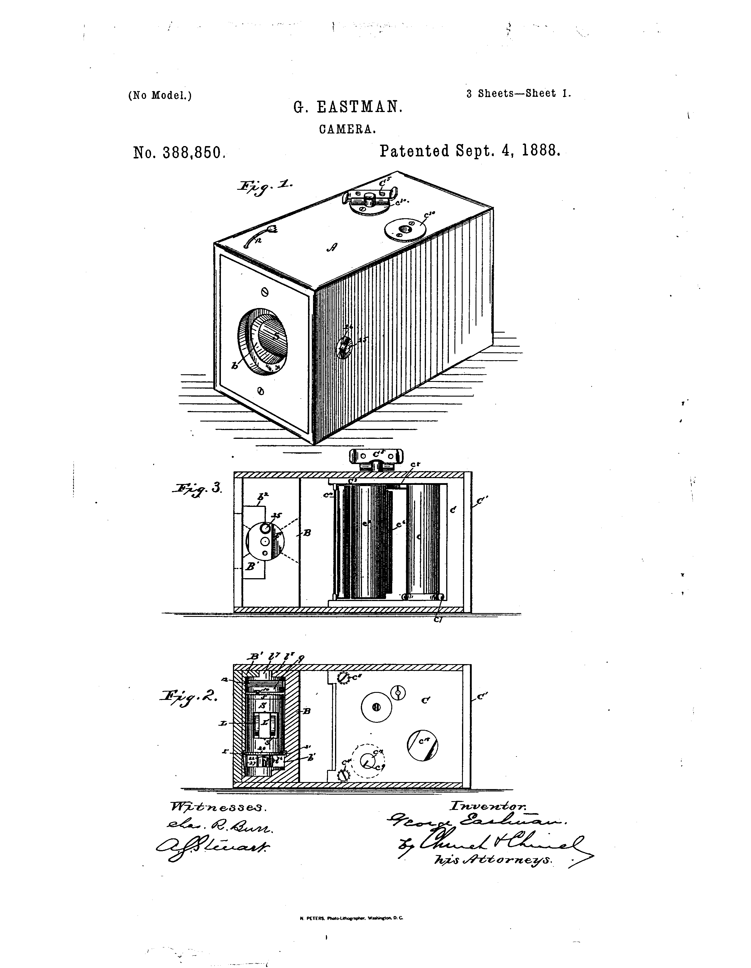 Page 1 of George Eastman's patent no. 388,850, for his film camera and roll film.